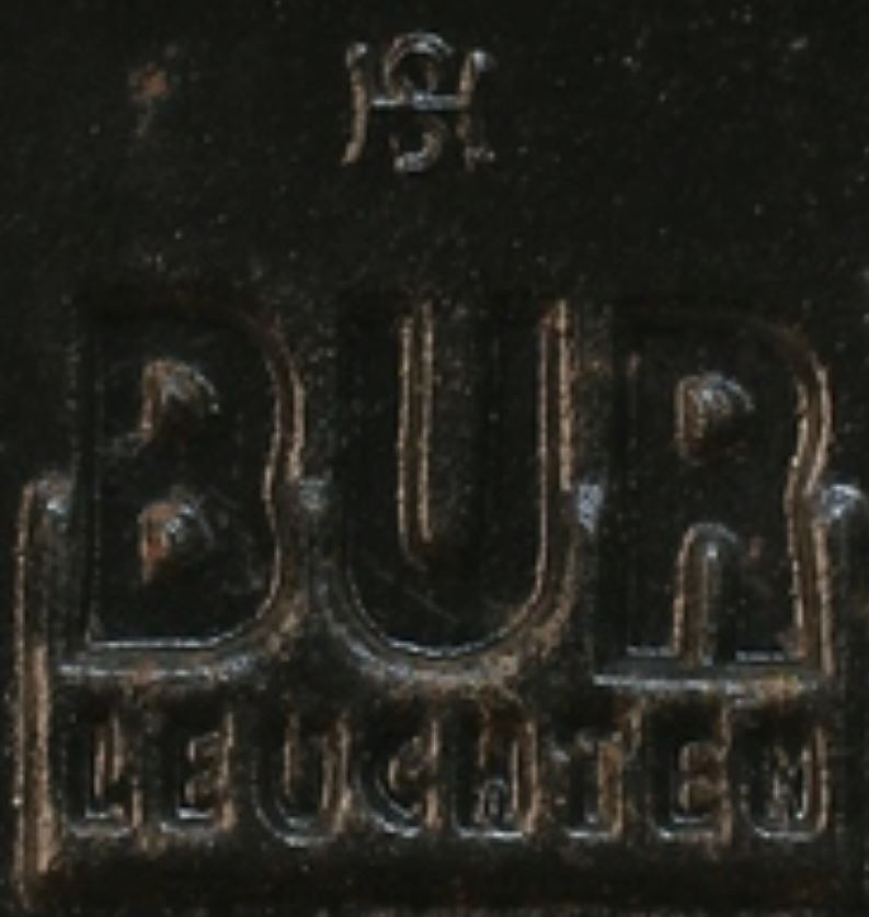 Bünte & Remmler's mark